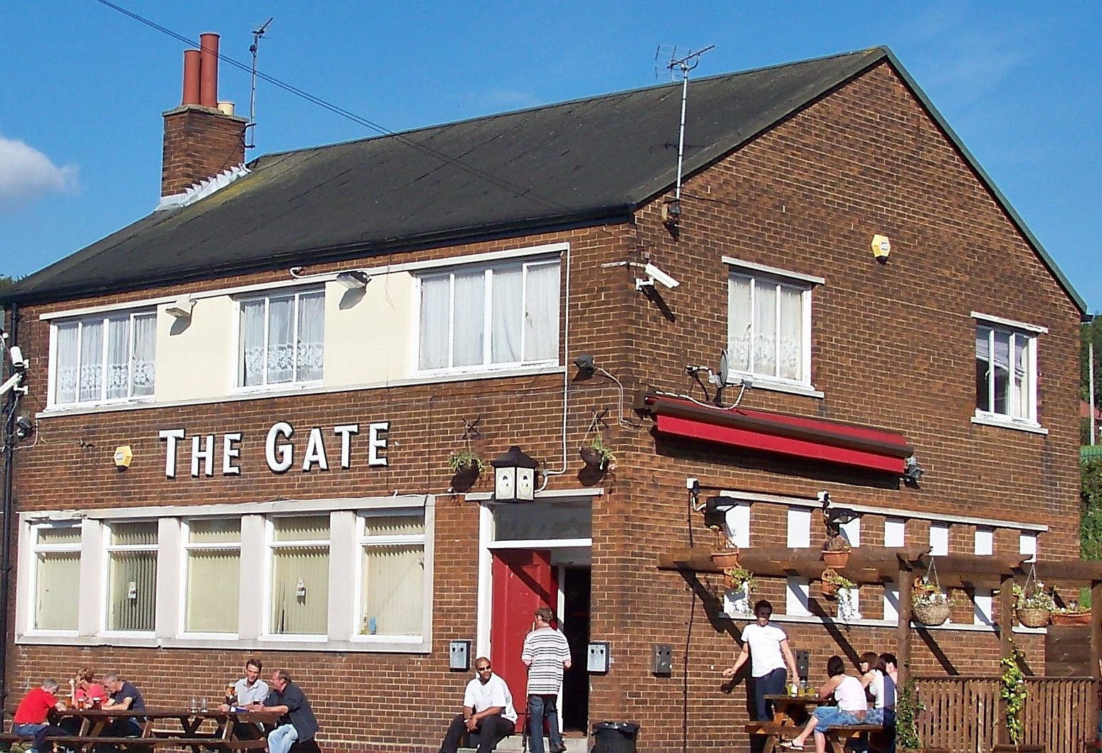 The Gate public house on Kentmere Avenue in Seacrof, Leeds, West Yorkshire. The photograph was taken on the afternoon of Thursday 10th September 2009.